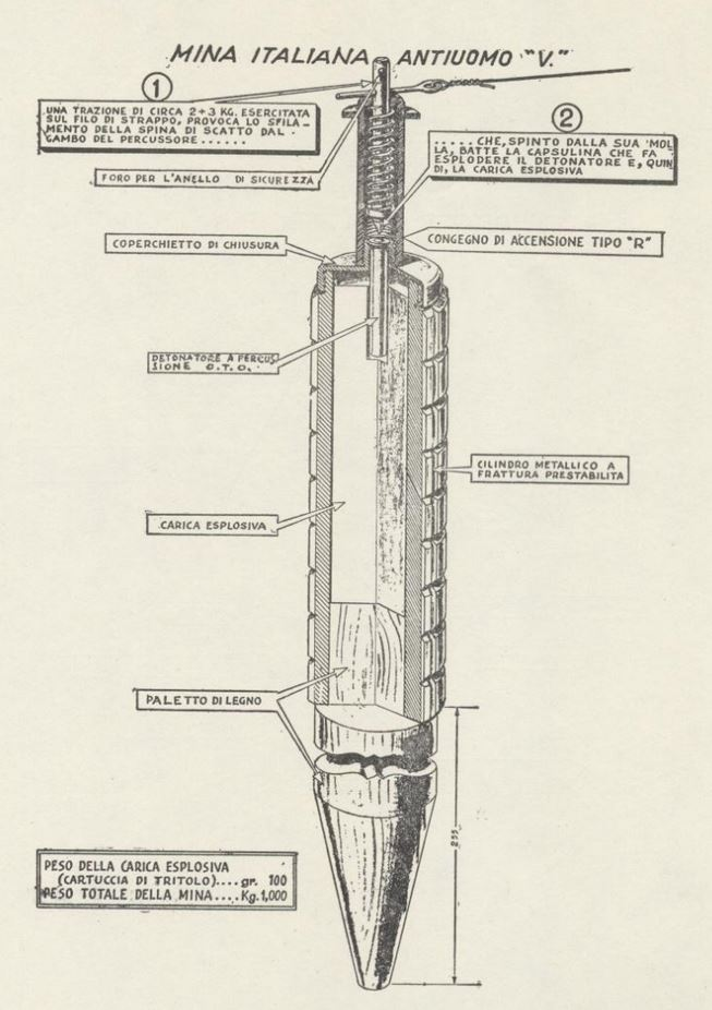 WWII italian picket mine